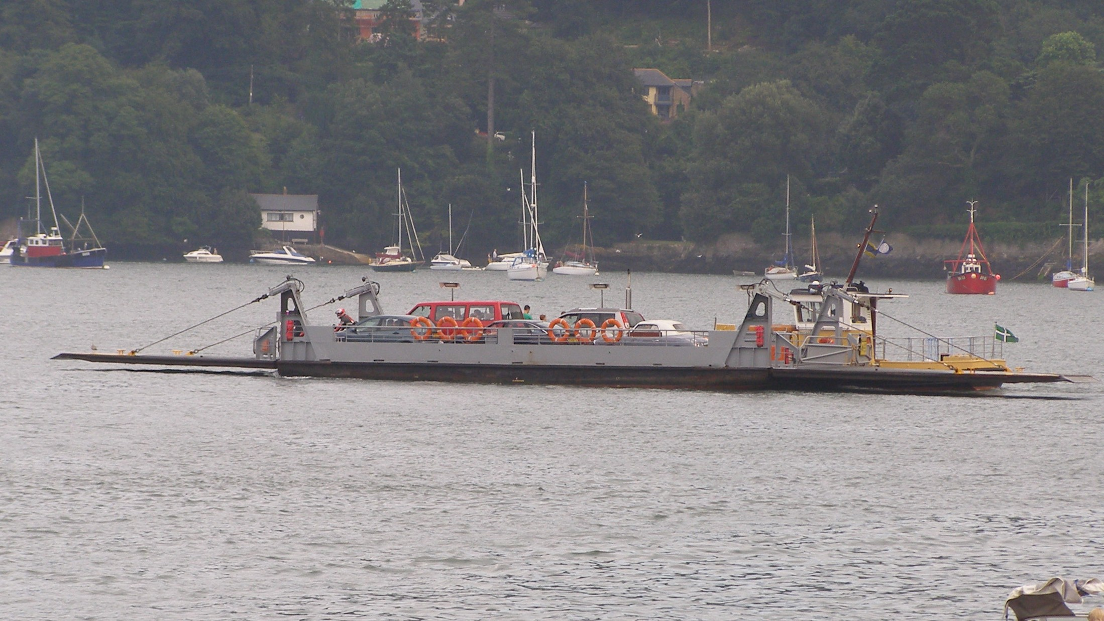 Dartmouth Lower Ferry in operation in 2006 at Dartmouth, Devon, England